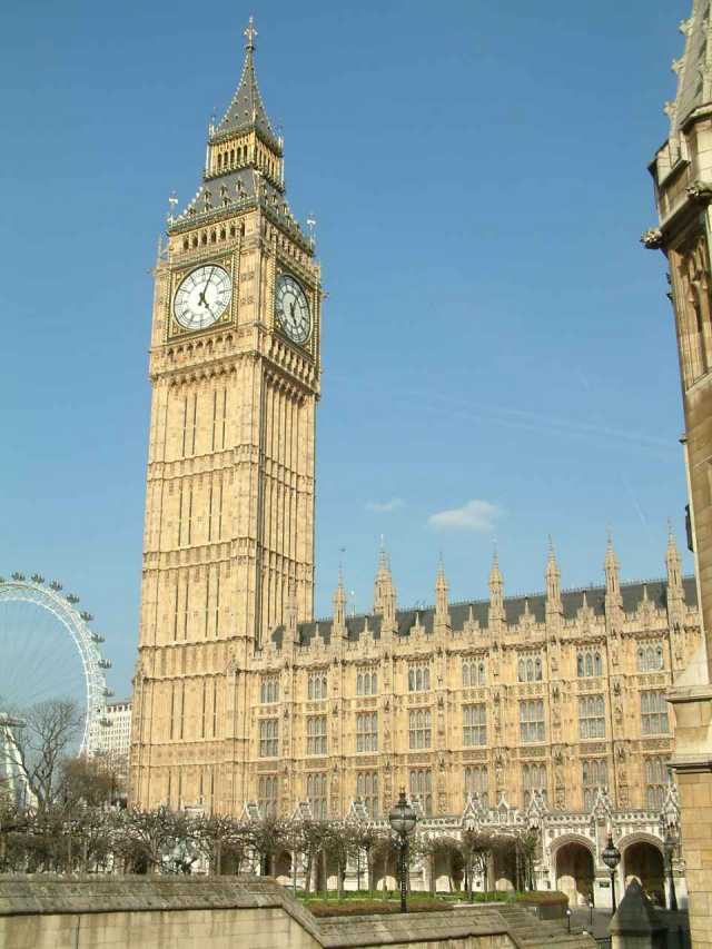 Palace of Westminster - Clock Tower and New Palace Yard from the west - 240404 Photo taken by Tagishsimon on the 24th April 2004 18:21, 26 April 2004 Tagishsimon 640x853 (59552 bytes) (Palace of Westminster - Clock Tower and New Palace Yard from the west - 240404)